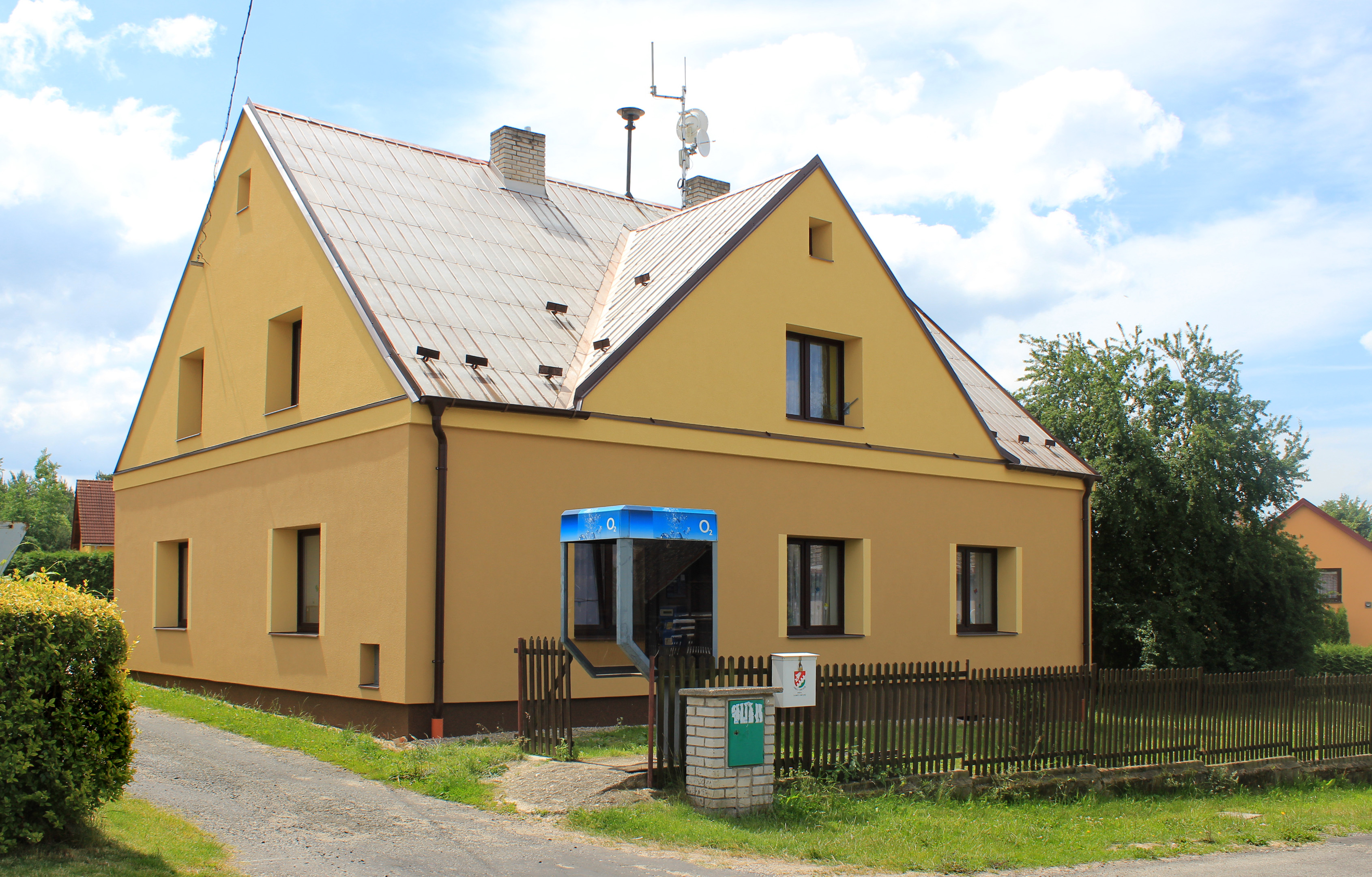 Municipal office in Chudíř, Czech Republic.